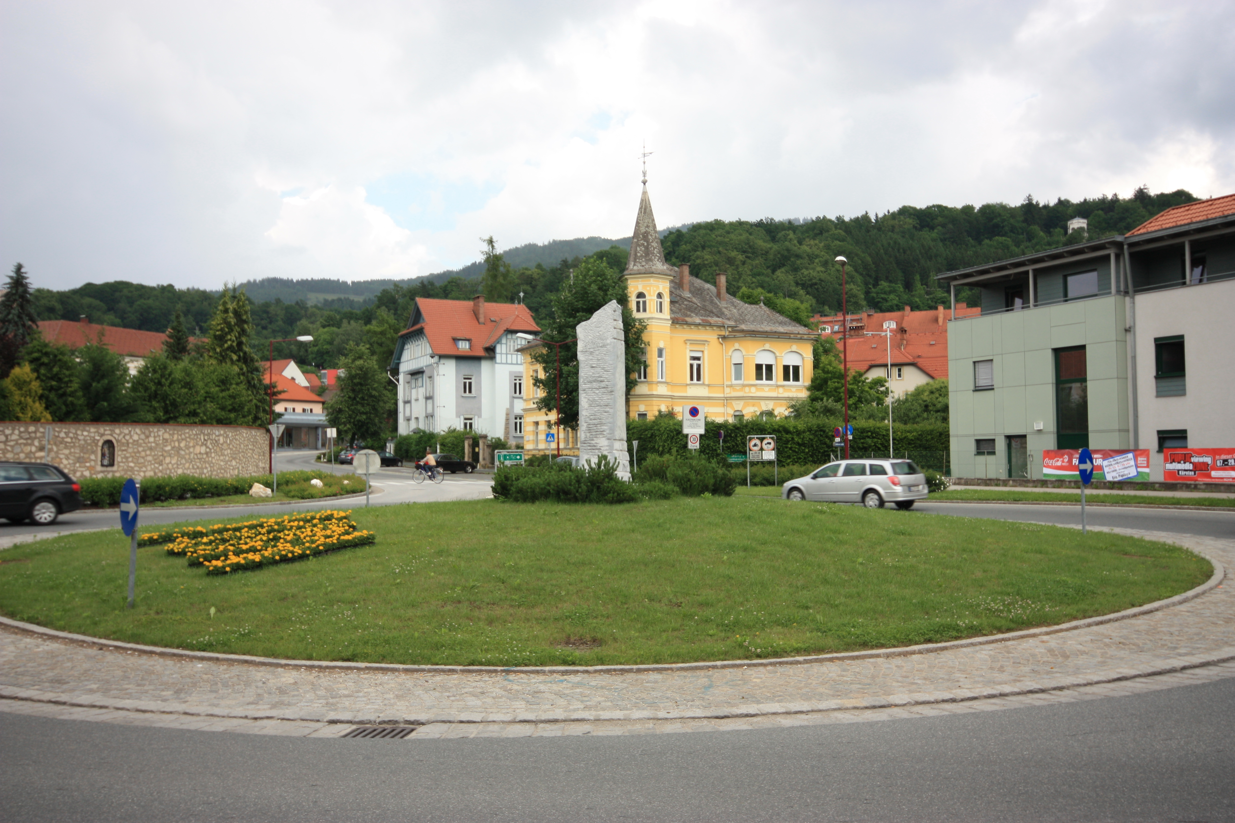 Roundabout in the south of Wolfsberg, Carinthia